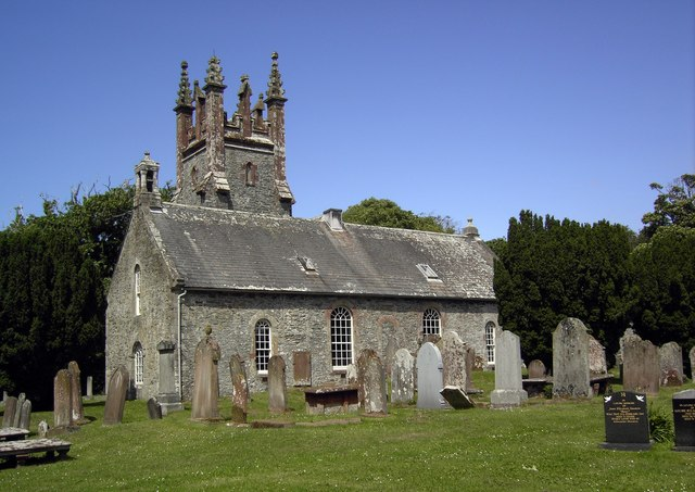 Glasserton Church Glasserton church and graveyard.